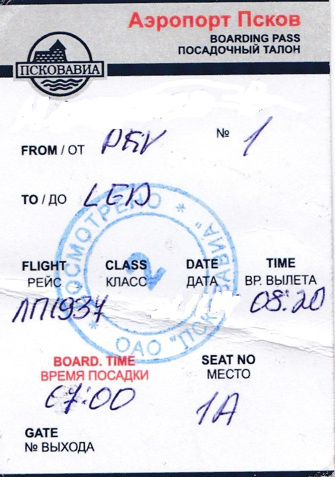 Airport Pskov boarding pass